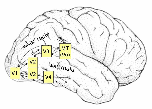 Two visual paths in the extrastriate: the "where" route and the "what" route.